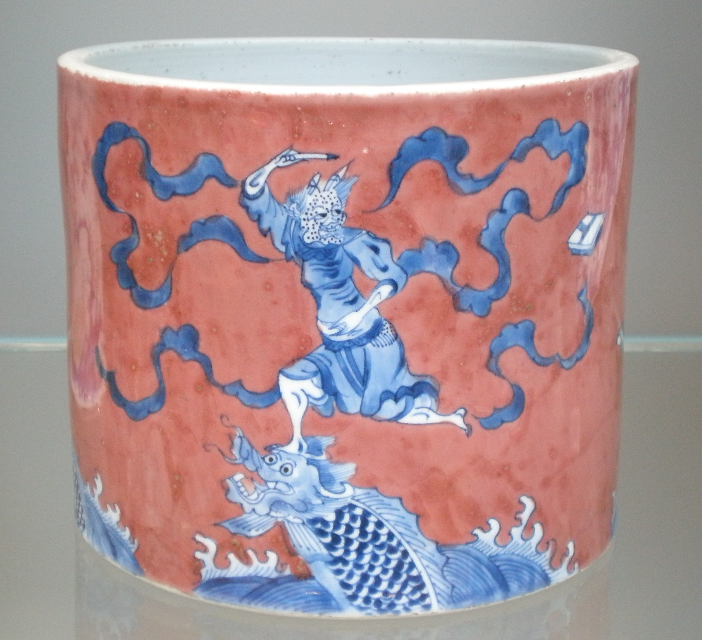 Brush Pot with Kui Xing China 1700-20 Porcelain painted in underglaze blue and red. This brushpot is decorated with an image of Kui Xing, the God of Literature, standing on one leg on the head of a mythical creature called Ao. Kui Xing holds a writing brush in his right hand and a measure of grain (dou) in his left hand. The measure represents a container for wisdom and inspiration. Collection ID: C.976-1910 This photo was taken as part of Britain Loves Wikipedia in February 2010 by David Jackson.